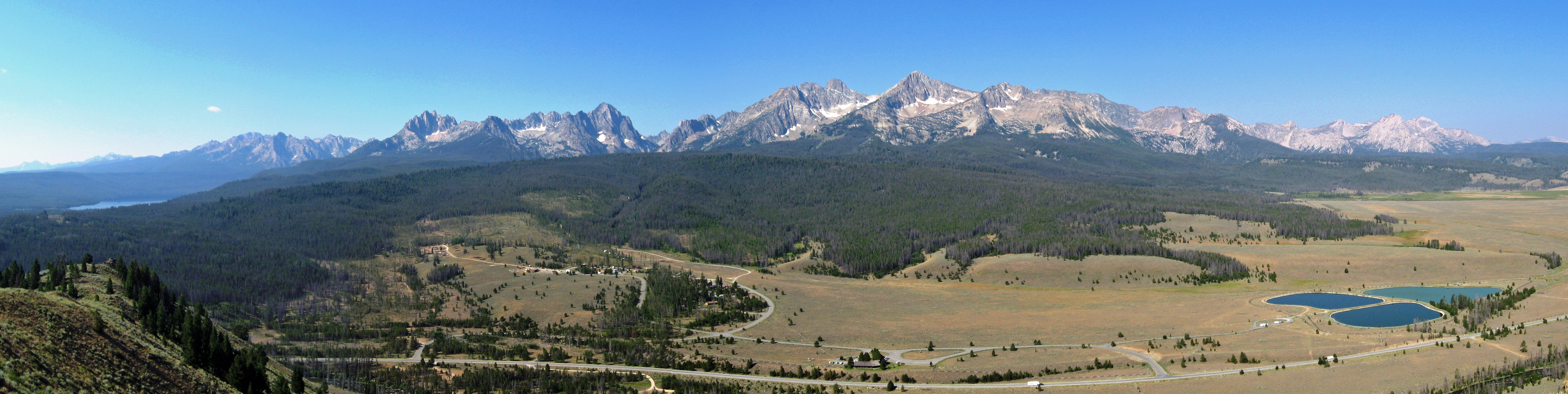 The Sawtooth Mountains in Idaho from a ridge southeast of Stanley